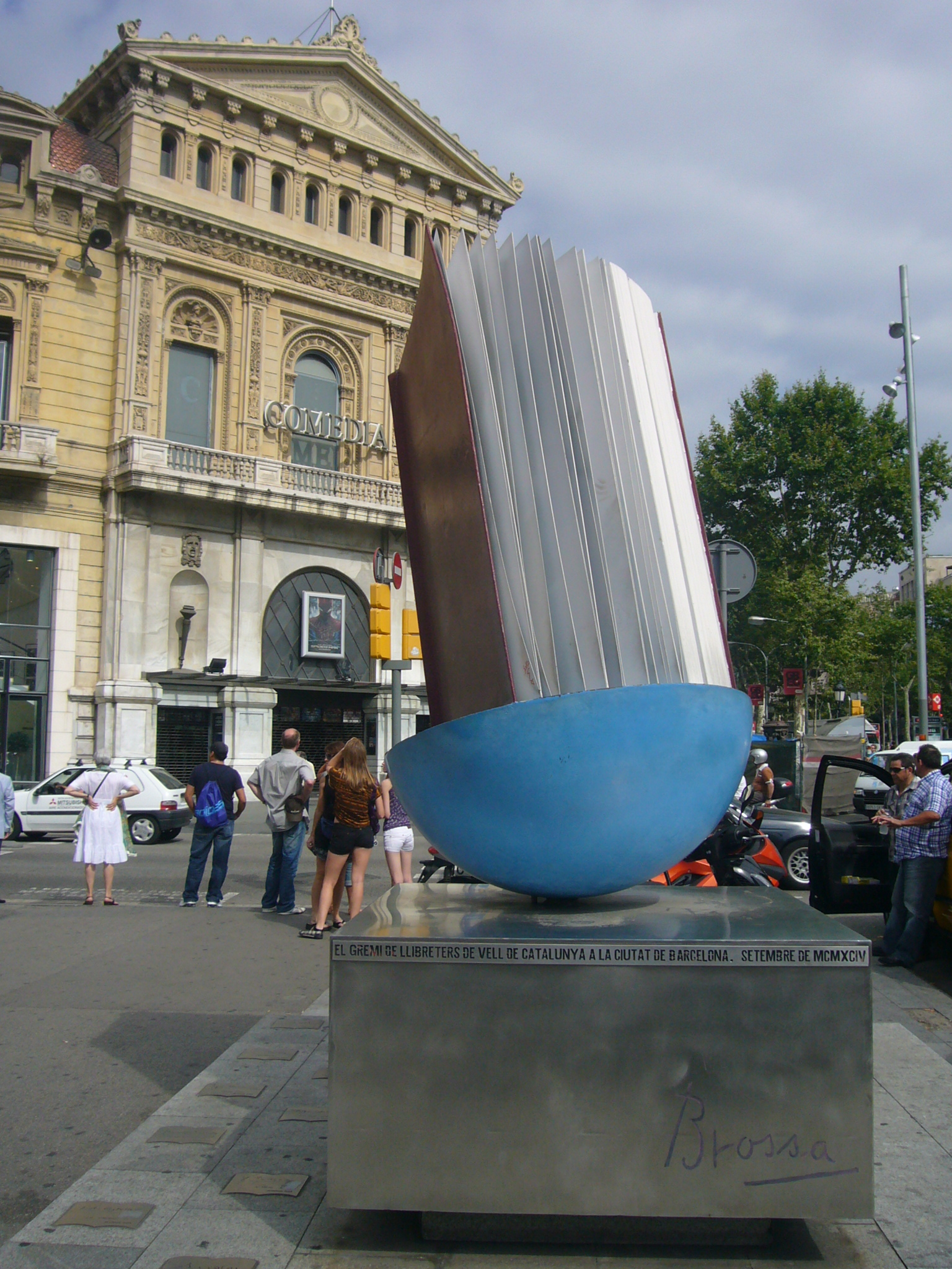 Monument al Llibre (Joan Brossa) i Cinema Comèdia